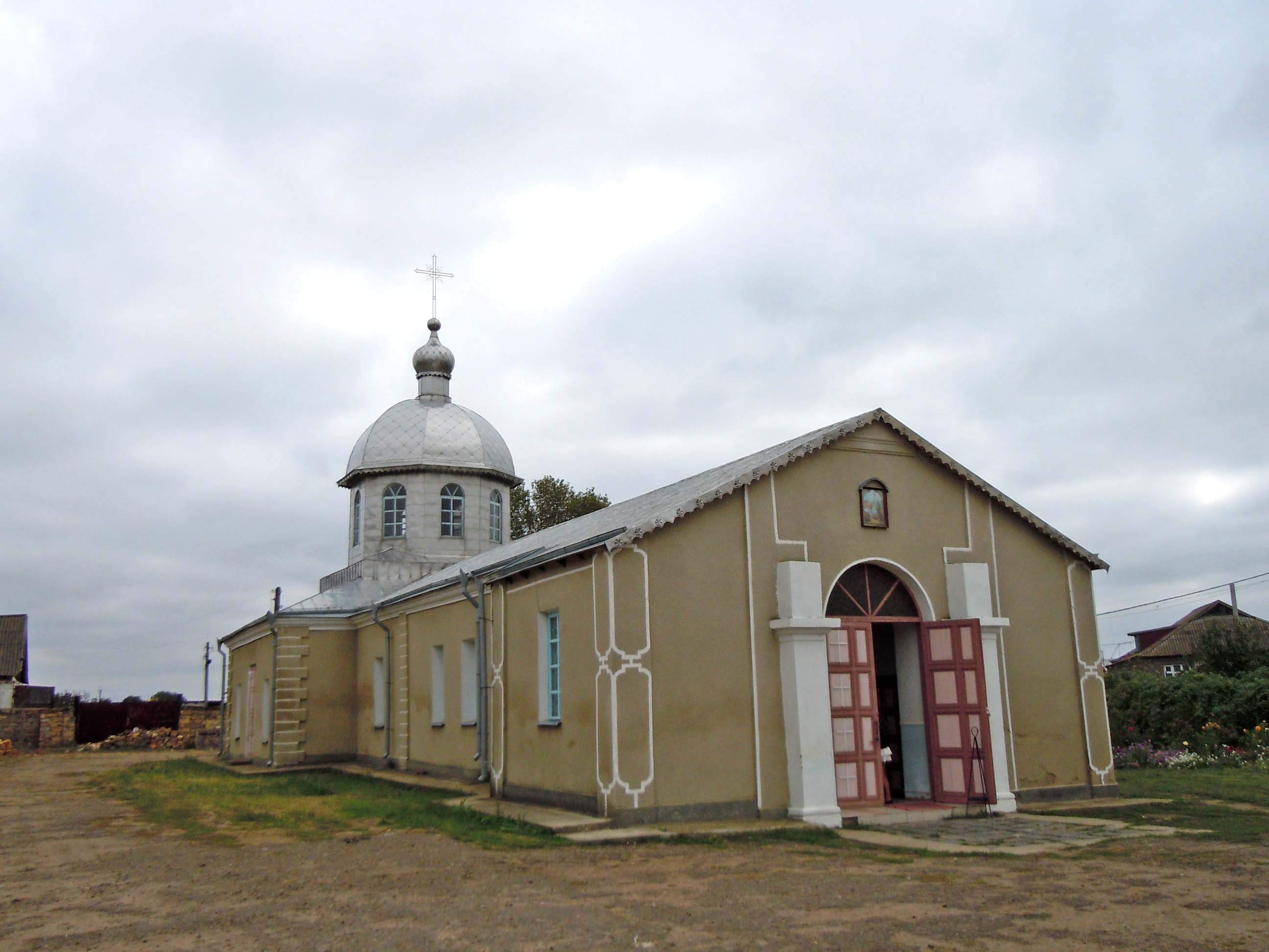 The White Church (The Saint Dormition Church) in Bilyayivka, Odessa Oblast, Ukraine. Founded in 1873